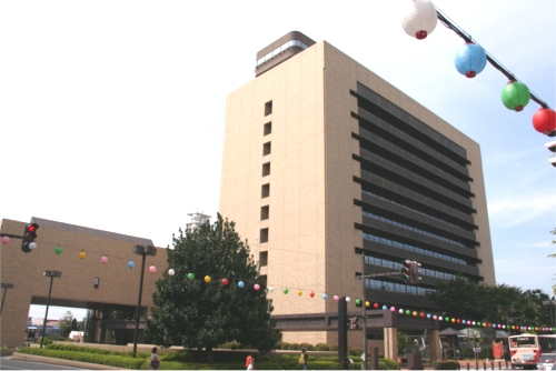 Yamagata City Hall (Yamagata City, Yamagata Prefecture, Japan.)